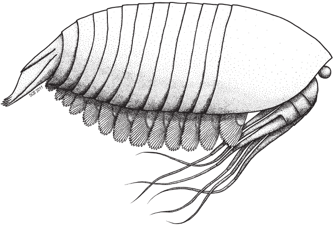 Reconstruction of Oestokerkus megacholix in lateral view. Total length and annulations on the flagella and positions of podomere boundaries of the frontal appendage are based on Leanchoilia superlata (Bruton and Whittington, 1983).